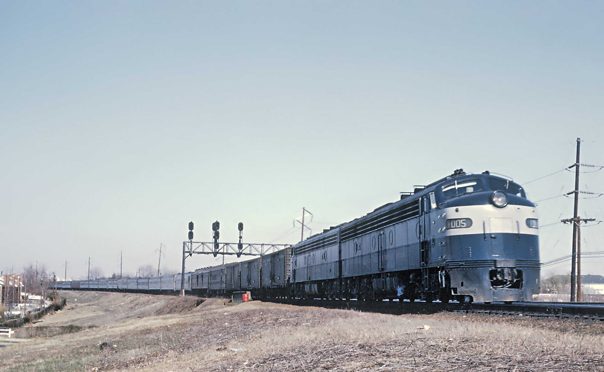 A Roger Puta Photograph